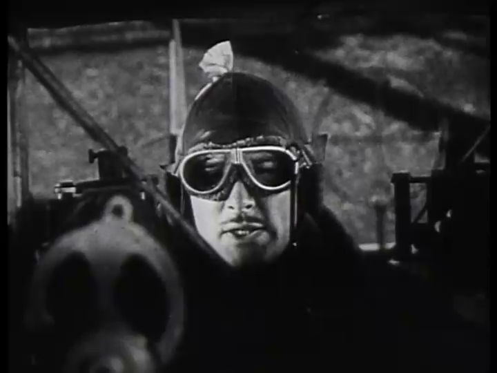 Errol Flynn in The Dawn Patrol, film by Edmund Goulding (1938)